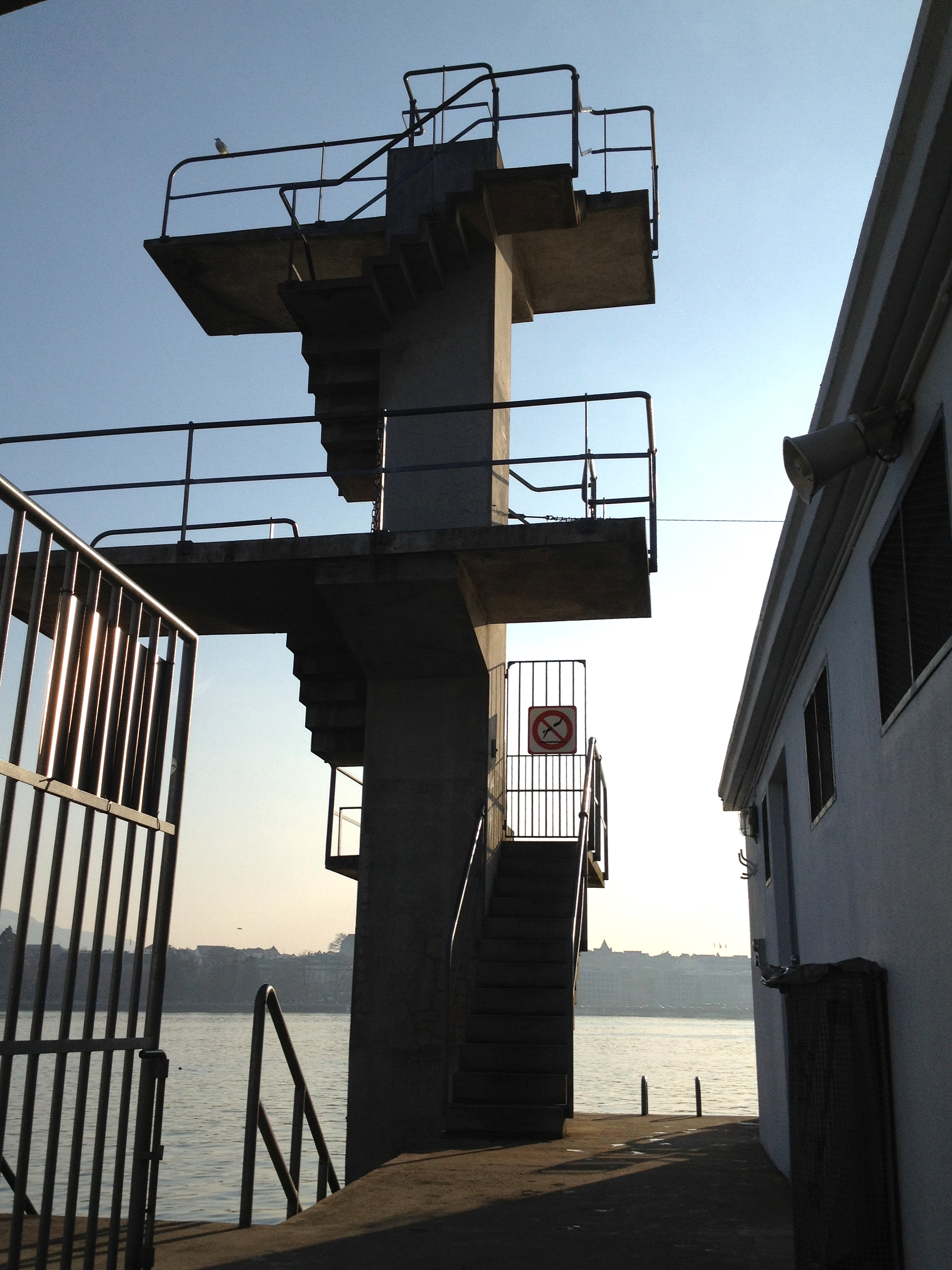 Diving board (1932), Bain des Pâquis, Harbour of Geneva, Switzerland